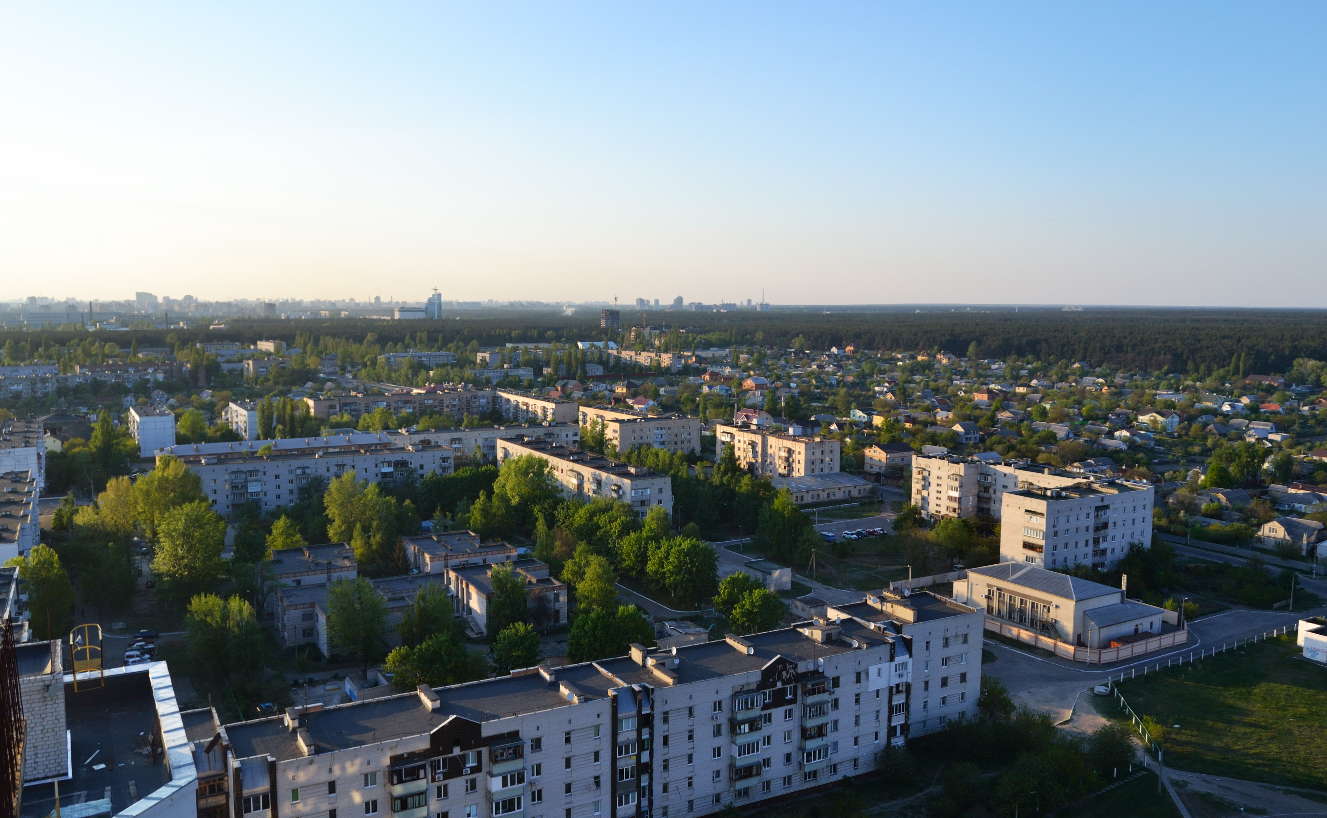 Bortnychi is a historic neighbourhood in the southern part of Kiev.